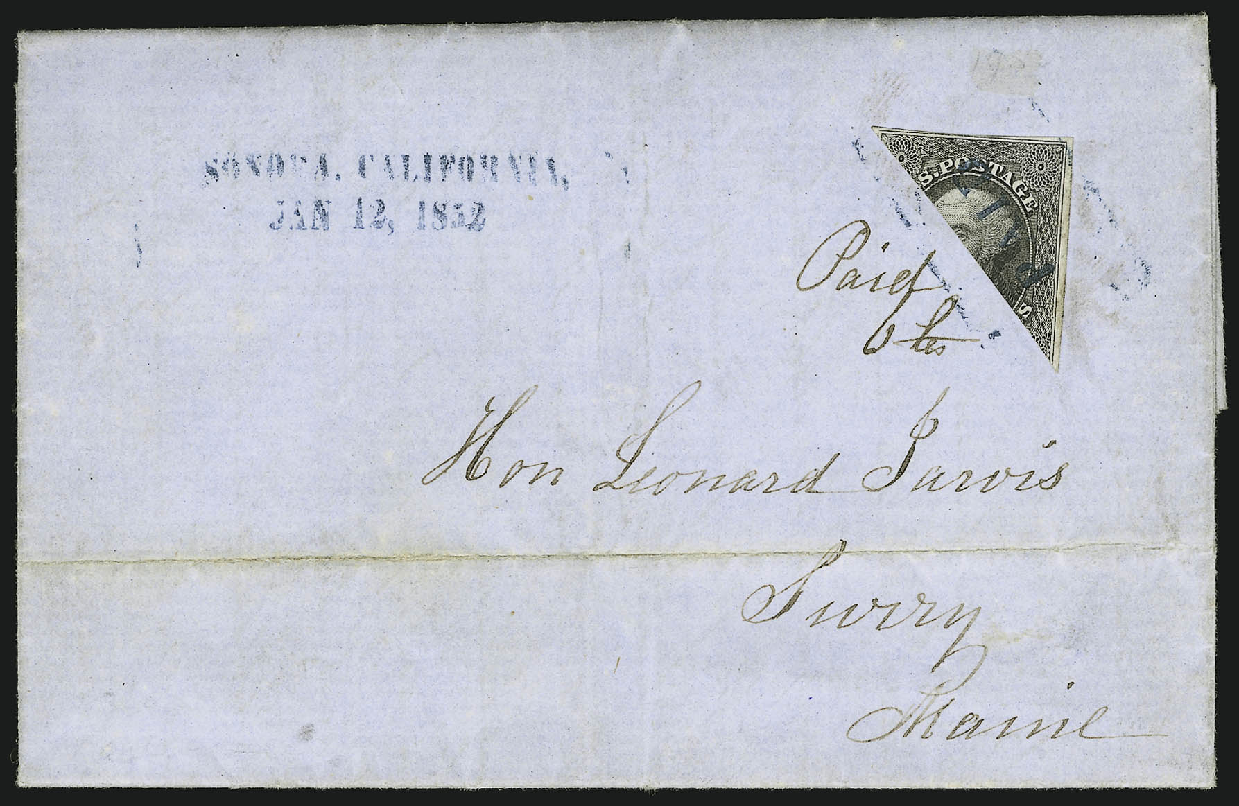 12c Black United States (provisional or "unofficial") postage stamp bisect of No. 17, with a January 12, 1852 Sonora, California cancellation This image was uploaded from: and was part of the Robert A. Siegel Auction Galleries, Inc. June 12, 2004 It was described exactly as ... 12c Black, Diagonal Half Used as 6c (17a). Upper right diagonal half, ample margins, ideally tied across the cut by blue framed "PAID" straightline with matching "SONORA, CALIFORNIA/JAN 12, 1852" two-line datestamp on blue folded letter to Surry Me., from the Jarvis correspondence, ms. "Paid 6cts", slight bleaching along file fold ... EXTREMELY FINE. AN OUTSTANDING 12-CENT 1851 BISECT COVER WITH THE RARE SONORA 1852 YEAR-DATED STRAIGHTLINE POSTMARK. ONLY FIVE RECORDED COVERS -- ALL FROM THE JARVIS CORRESPONDENCE -- WITH THE 12-CENT 1851 BISECT AND SONORA STRAIGHTLINE. Ex Brown, Grunin and Zoellner